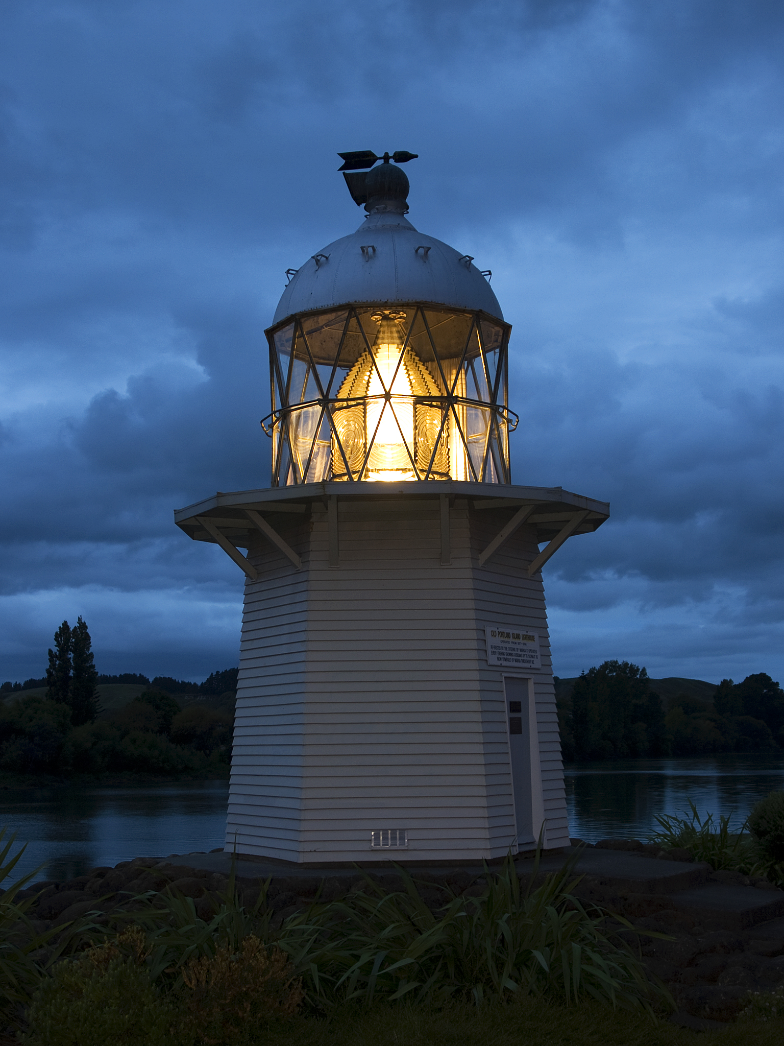 Old Portland Island Lighthouse (1877), 1961 re-erected at the river banks of Wairoa River, Wairoa, Hawke's Bay Region, New Zealand. The lighthouse is used as a symbol of the town.